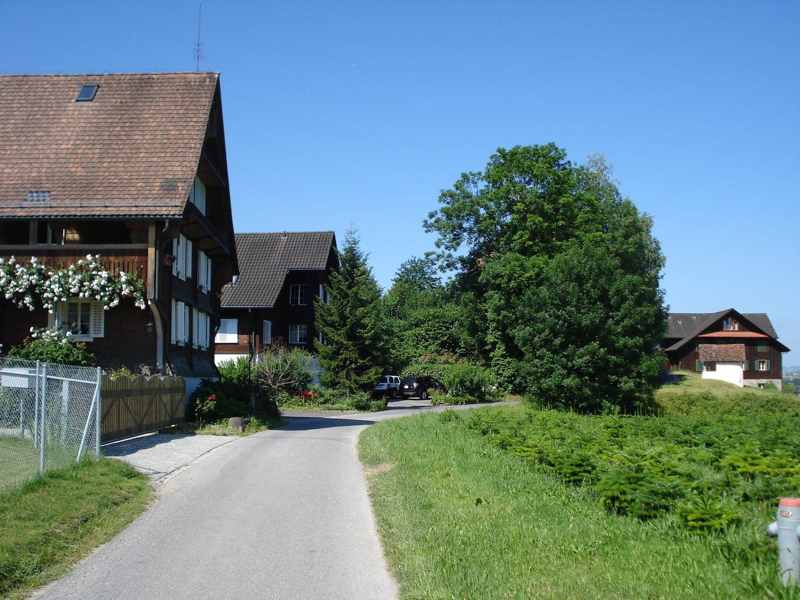 farmhouses in Ibikon